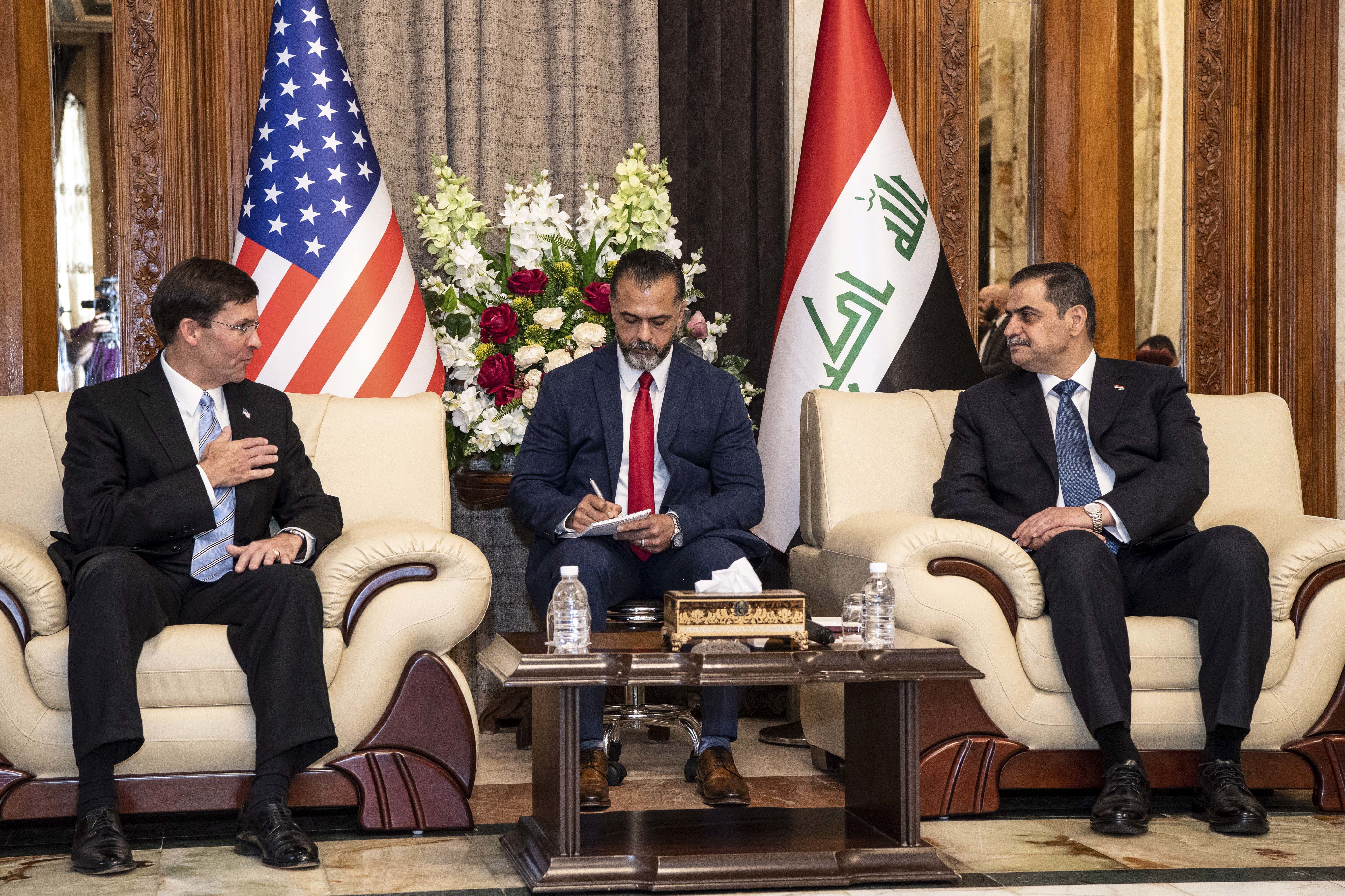 Defense Secretary Mark T. Esper gives remarks during a bilateral ceremony at the Ministry of Defense with Iraq Defense Minister Najah al-Shammari in Bagdad, Iraq, Oct. 23, 2019. (DoD photo by U.S. Army Staff Sgt. Nicole Mejia)